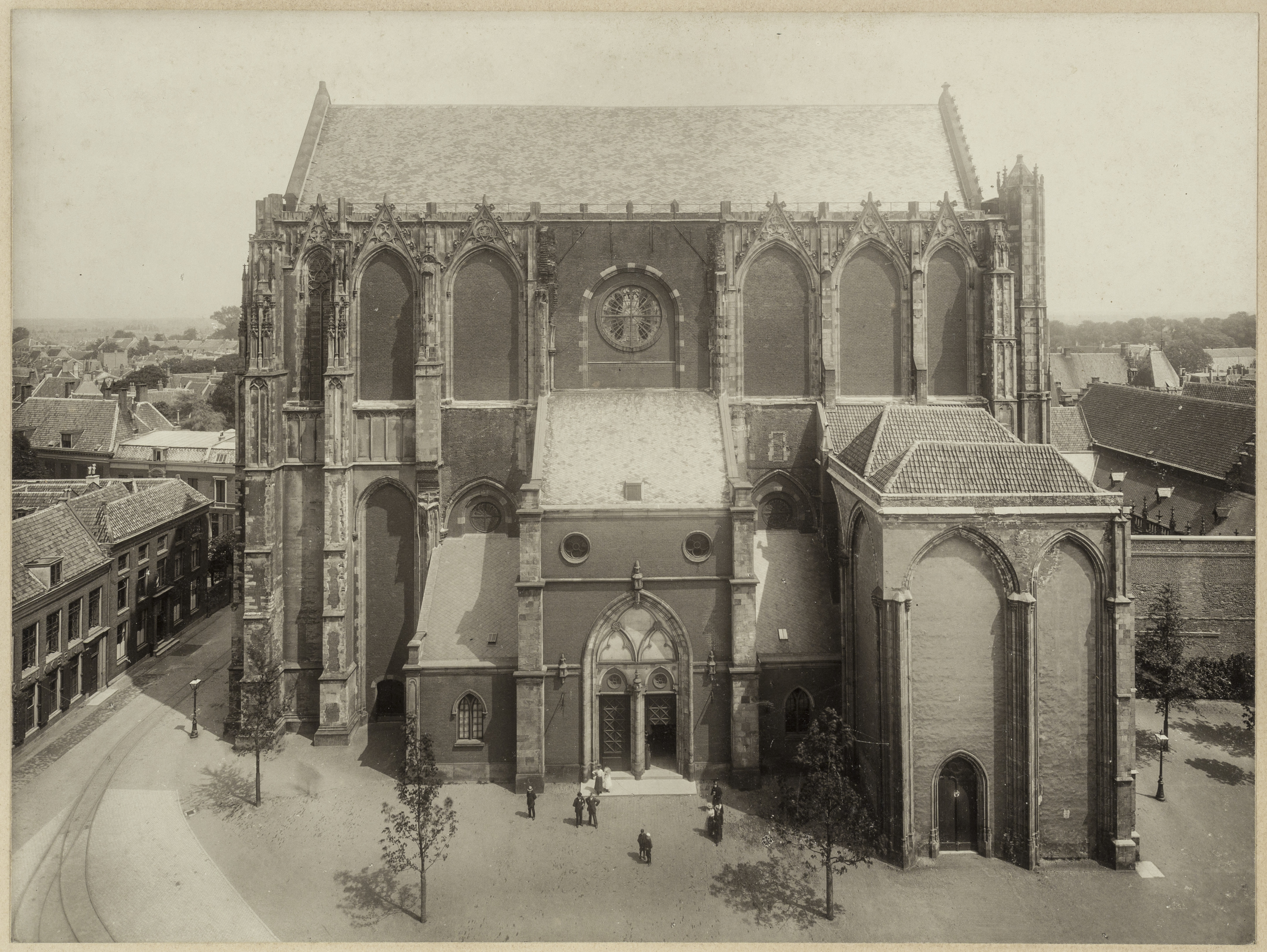 Utrecht cathedral from the west before restauration